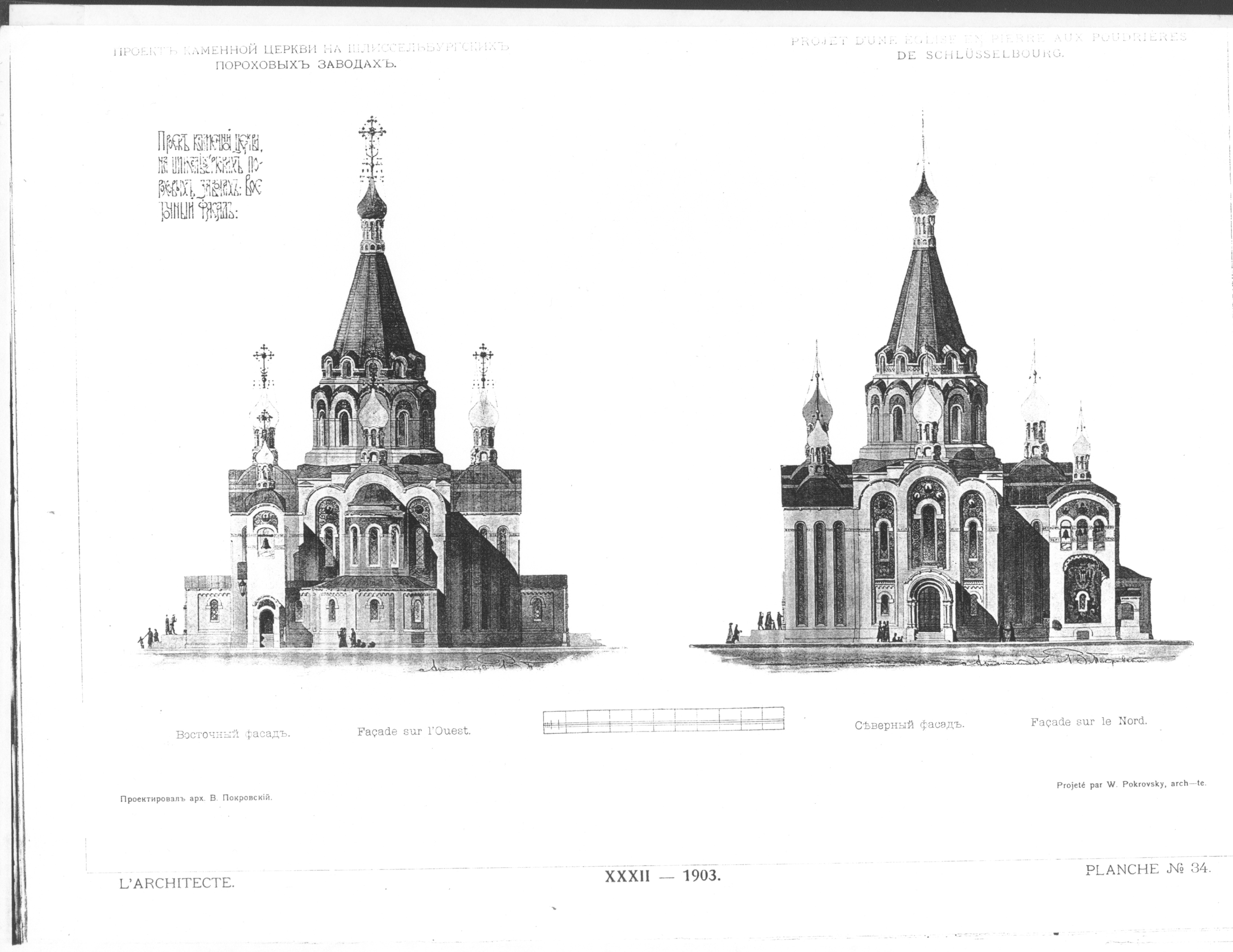 Церковь ШПЗ проект Зодчий